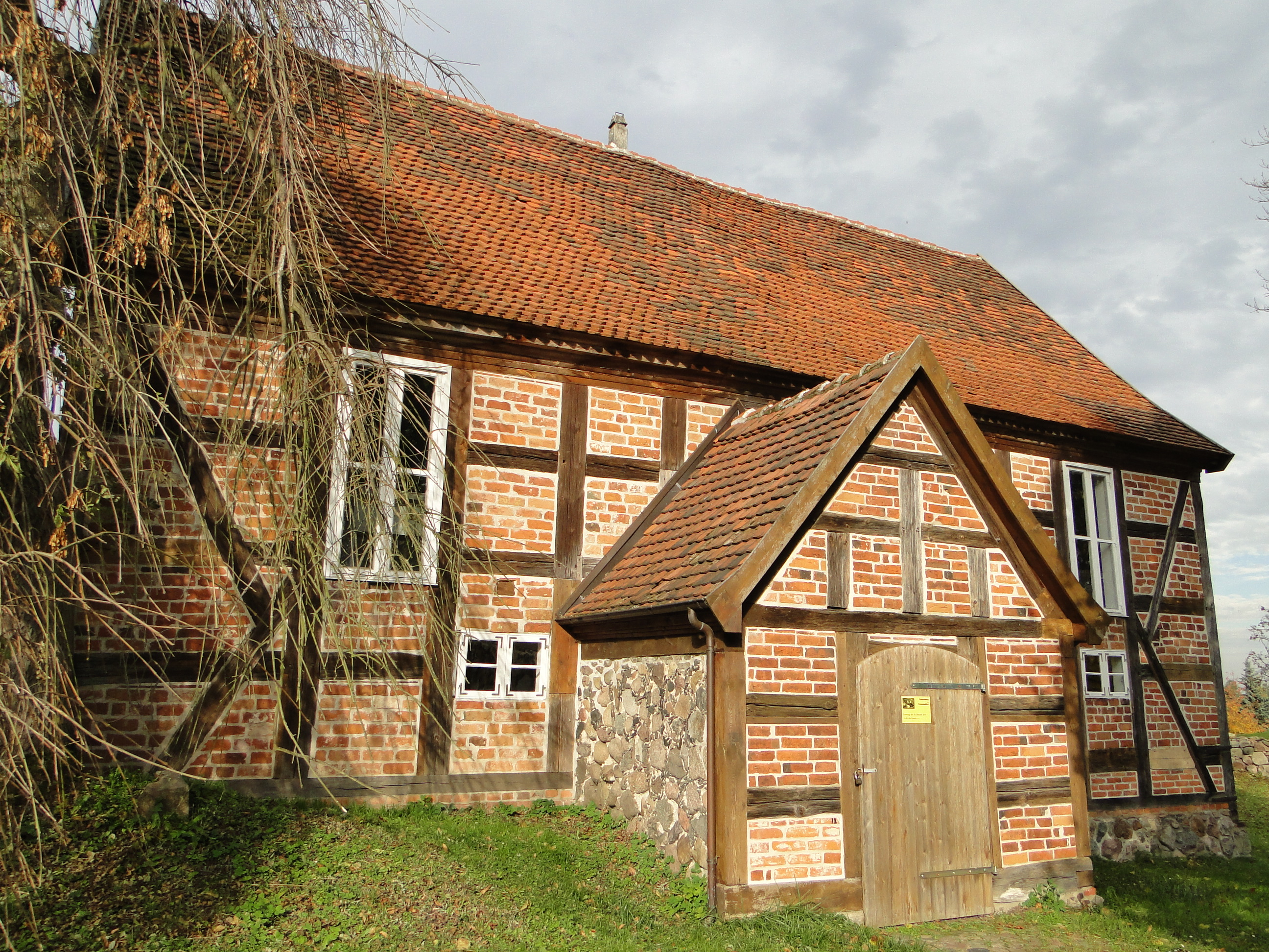 Church in Carwitz, district Mecklenburg-Strelitz, Mecklenburg-Vorpommern, Germany